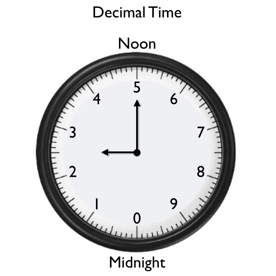 Decimal time clock I hereby affirm that I, (kcida10) the creator and/or sole owner of the exclusive copyright of (Decimal_Time_Clock.jpg) is my work. I agree to publish that work under the free license "Creative Commons Attribution-ShareAlike 3.0 Unported" and GNU Free Documentation License (unversioned, with no invariant sections, front-cover texts, or back-cover texts).] I acknowledge that by doing so I grant anyone the right to use the work in a commercial product or otherwise, and to modify it according to their needs, provided that they abide by the terms of the license and any other applicable laws. I am aware that this agreement is not limited to Wikipedia or related sites. I am aware that I always retain copyright of my work, and retain the right to be attributed in accordance with the license chosen. Modifications others make to the work will not be claimed to have been made by me. I acknowledge that I cannot withdraw this agreement, and that the content may or may not be kept permanently on a Wikimedia project. I am the designer and creator of this image. 14July2015